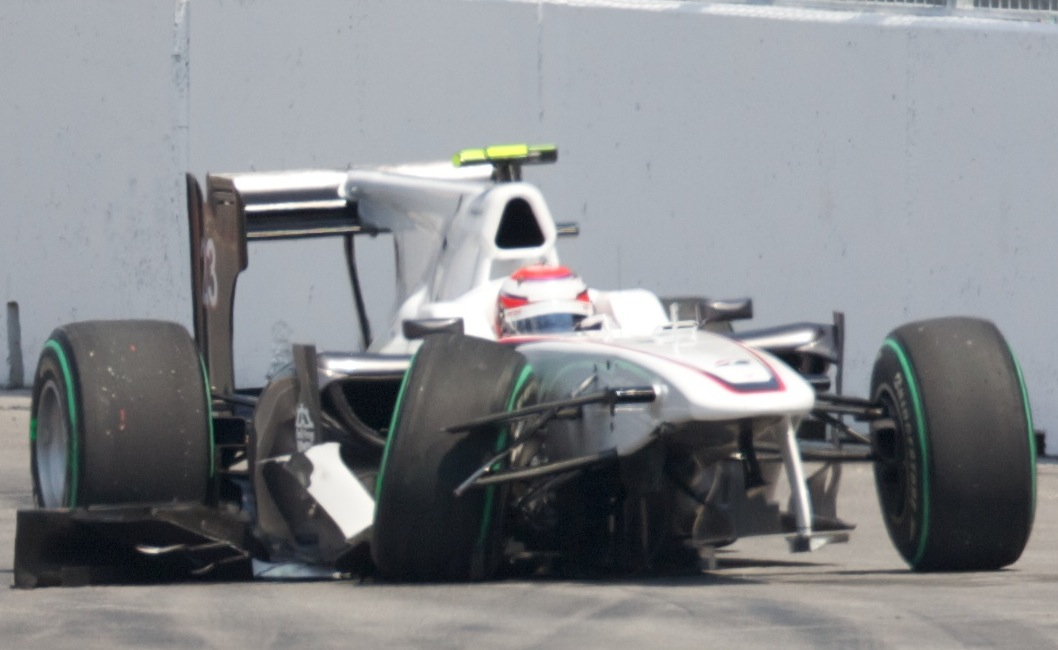 The remains of Kobayashi's Sauber